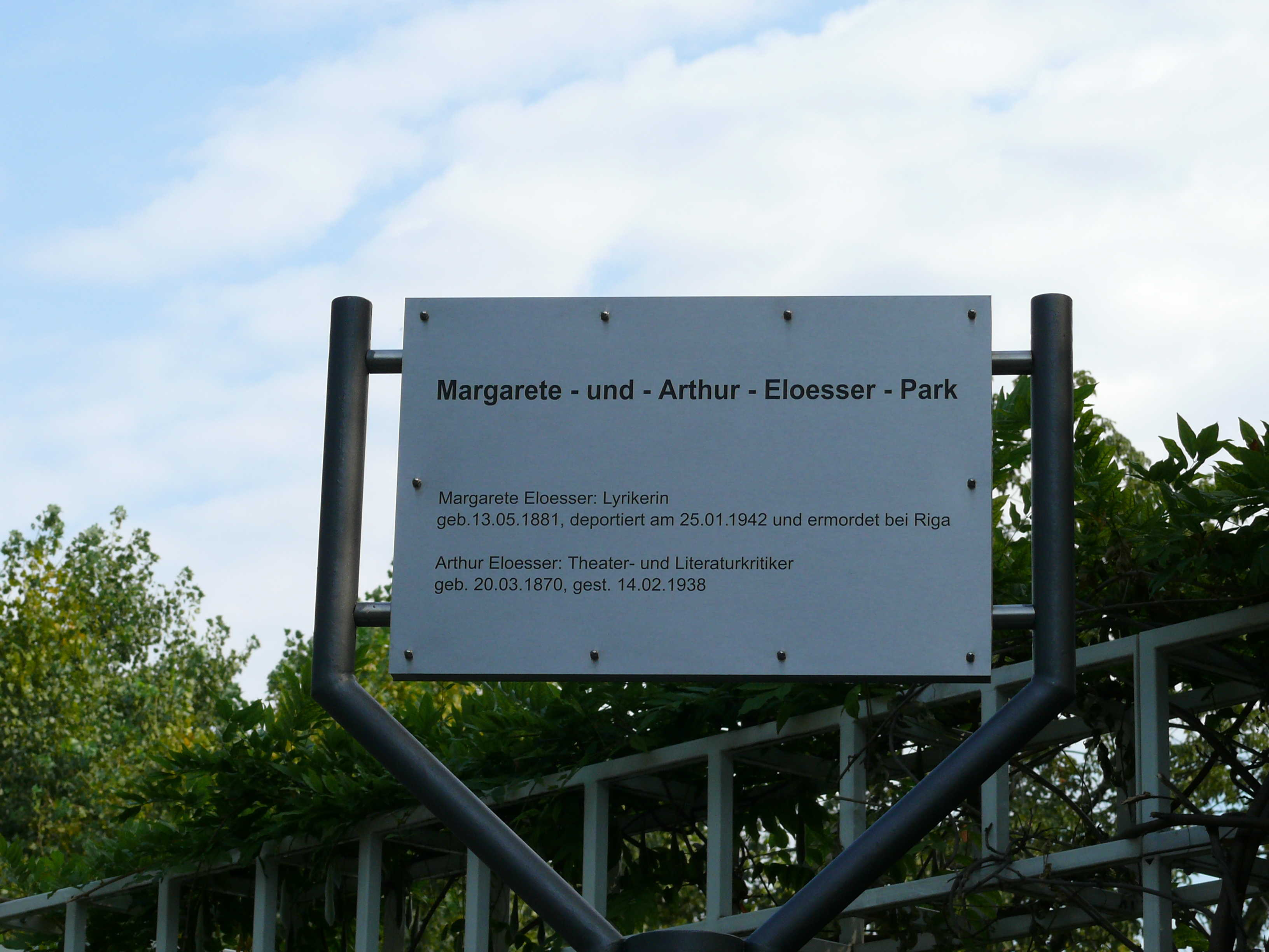 Berlin-Charlottenburg Margarete-und-Arthur-Eloesser-Park at Gervinusstraße